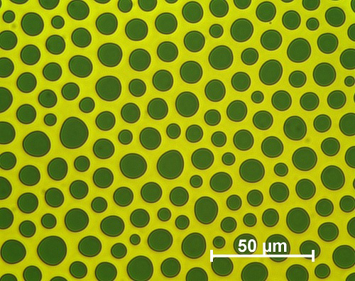 Visualization of a magnetic bubble domain structure (recording with CMOS MagView)